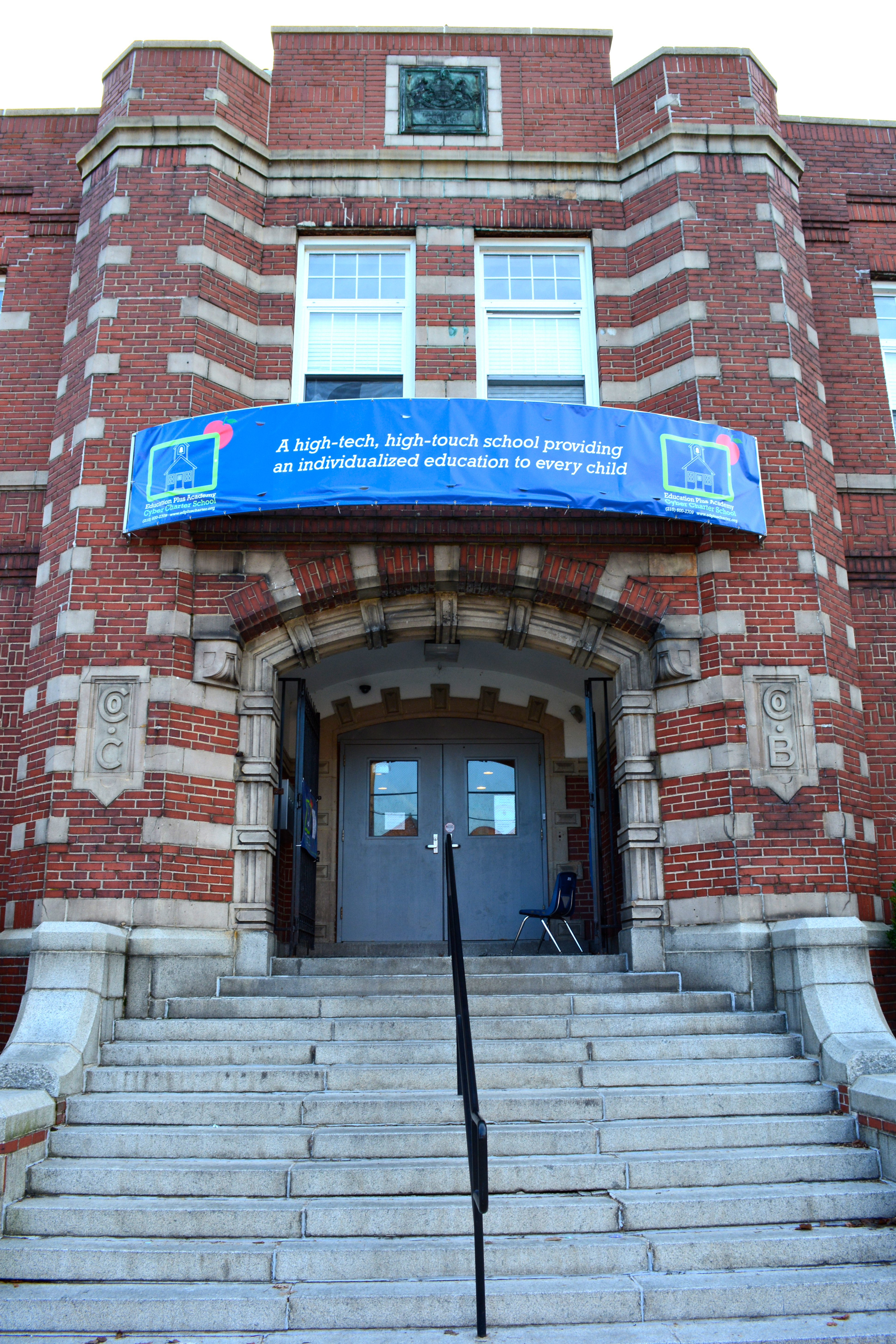 Old Armory in downtown Chester, Pennsylvania. Now a school. Designed by Price and McLanahan.